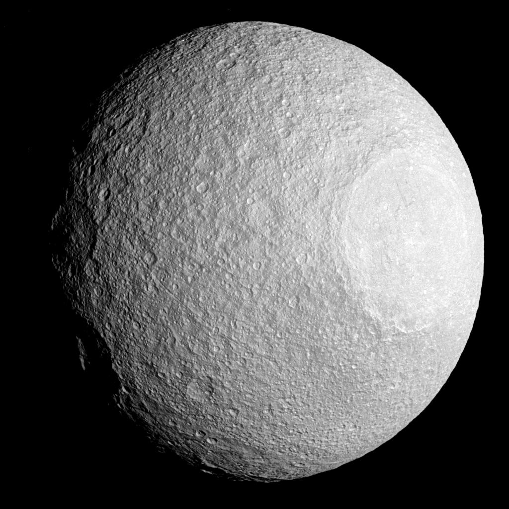 PIA18317: Tethys the Target Like most moons in the Solar System, Tethys is covered by impact craters. Some craters bear witness to incredibly violent events, such as the crater Odysseus (seen here at the right of the image). While Tethys is 1,062 kilometers (660 miles) across, the crater Odysseus is 450 kilometers (280 miles) across, covering about 18 percent of the moon's surface area. A comparably sized crater on Earth would be as large as Africa! This view looks toward the anti-Saturn hemisphere of Tethys. North on Tethys is up and rotated 42 degrees to the right. The image was taken in visible light with the Cassini spacecraft narrow-angle camera on April 11, 2015. The view was acquired at a distance of approximately 190,000 kilometers (118,000 miles) from Tethys. Image scale is 1 kilometer (3,280 feet) per pixel. The Cassini mission is a cooperative project of NASA, ESA (the European Space Agency) and the Italian Space Agency. The Jet Propulsion Laboratory, a division of the California Institute of Technology in Pasadena, manages the mission for NASA's Science Mission Directorate, Washington. The Cassini orbiter and its two onboard cameras were designed, developed and assembled at JPL. The imaging operations center is based at the Space Science Institute in Boulder, Colorado. For more information about the Cassini–Huygens mission visit and The Cassini imaging team homepage is at